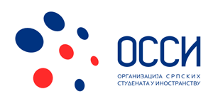 Organisation of Serbian Students Abroad OSSA